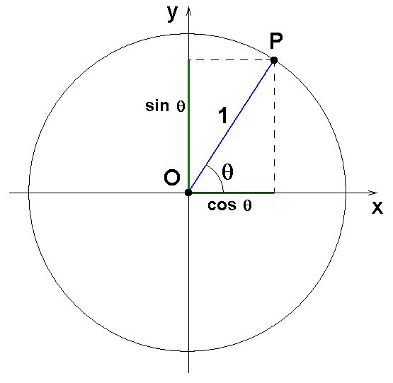 Unit circle with sinus and cosinus